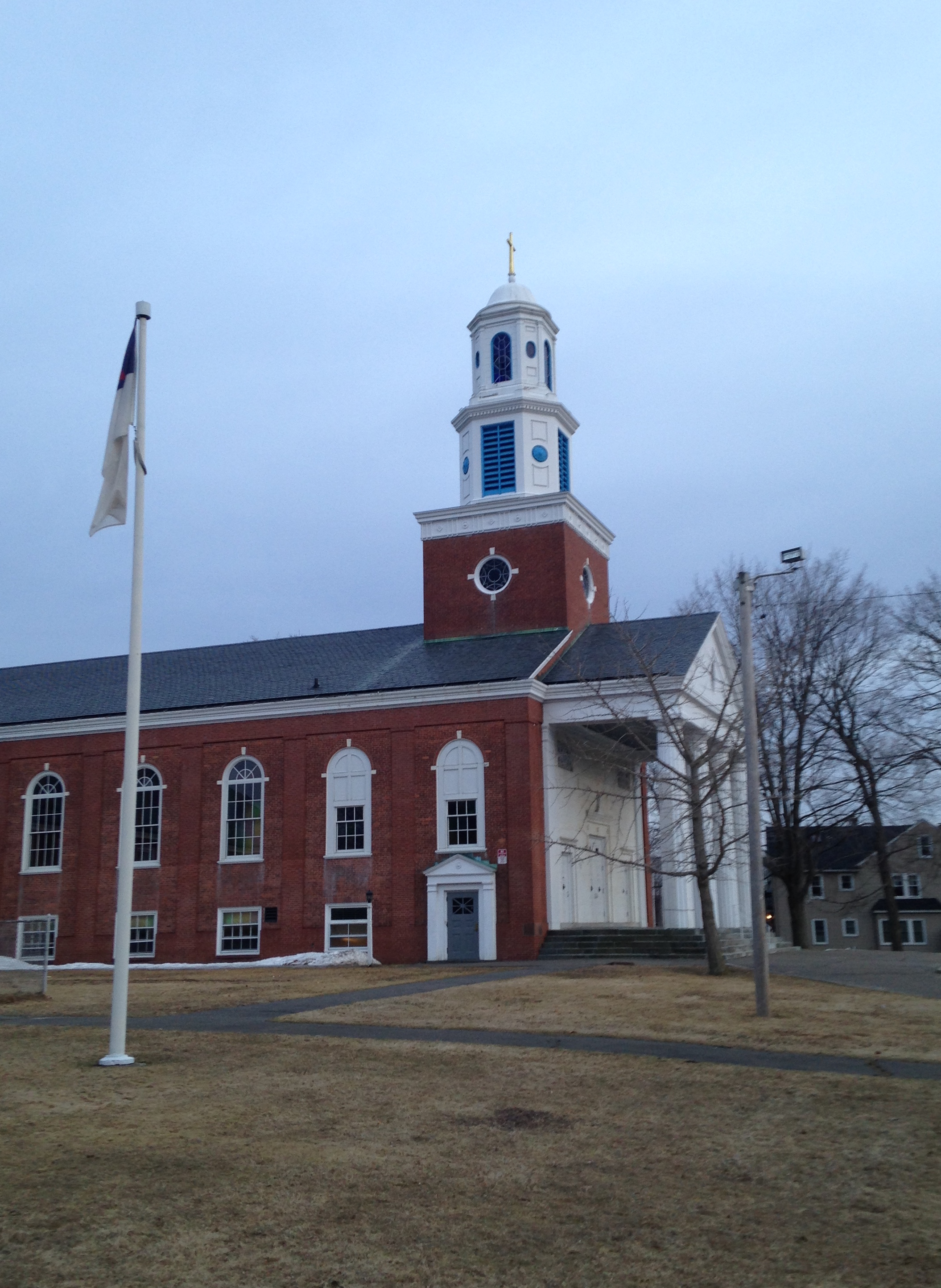 The First Lutheran Church of Holyoke, as it appears today on Northampton Street; previously located in a large building in South Holyoke, ground was broken on the church's present Oakdale home.